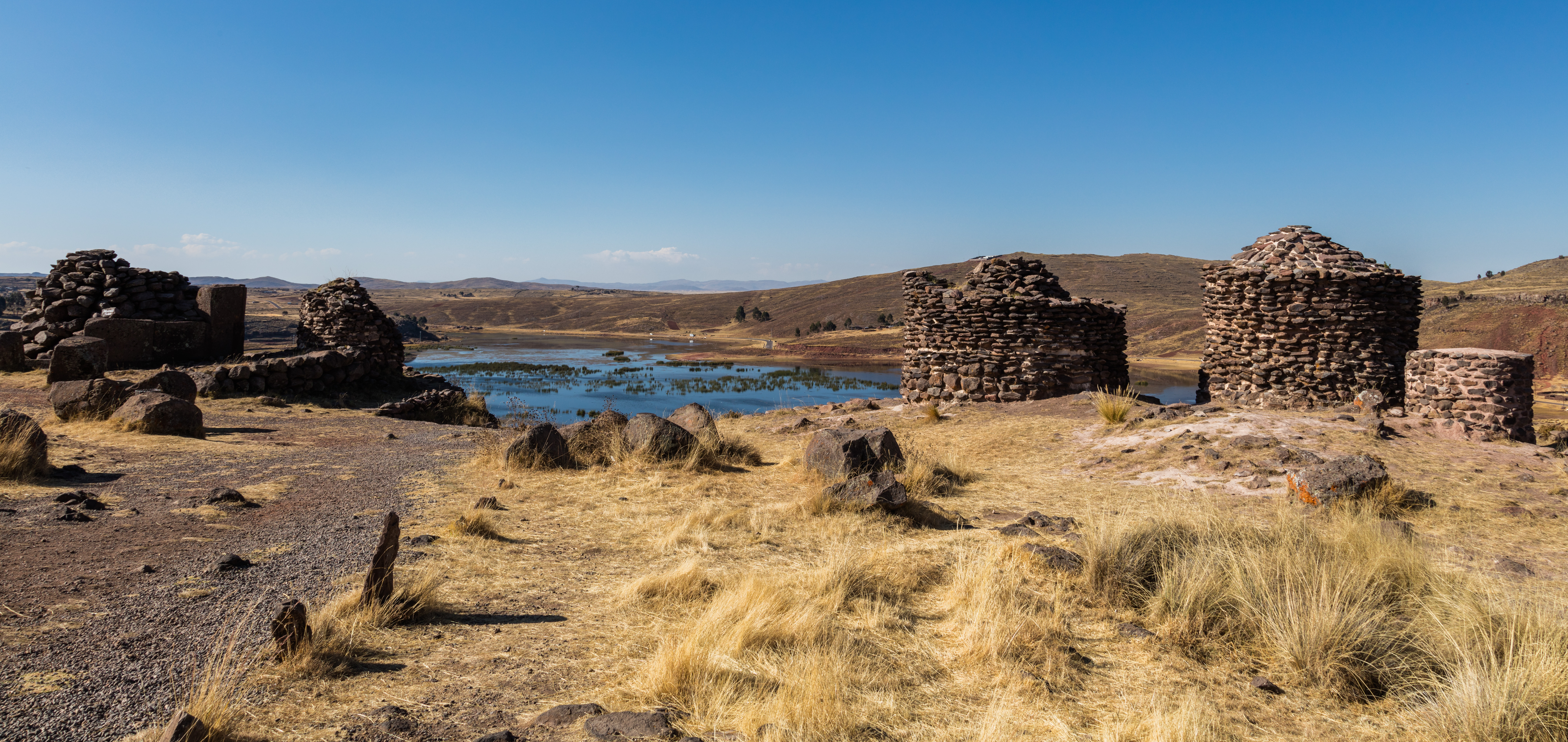 Chullpa funerary towers, Sillustani, Peru